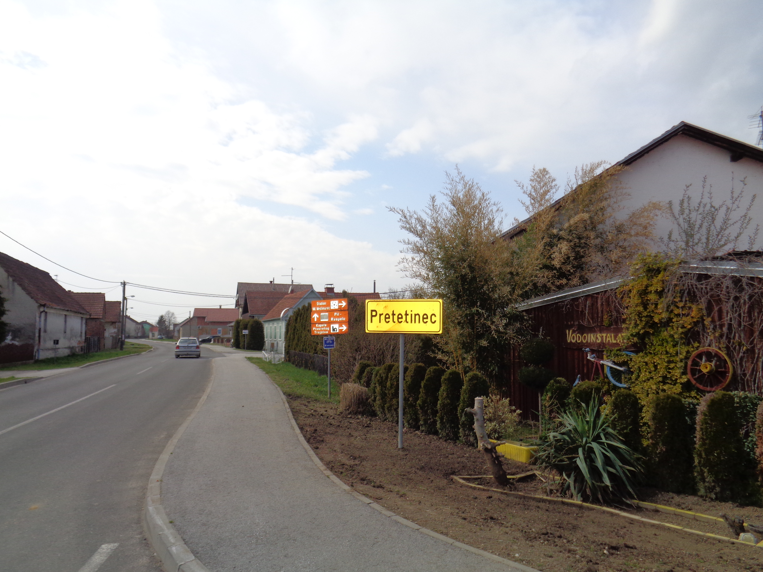 Pretetinec village, Nedelišće municipality, Medjimurje County, Croatia, in springtime 2018